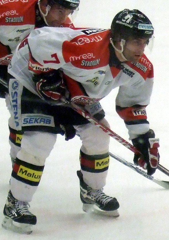 Ice hockey player Per Hållberg of MODO Hockey in E.ON Arena, Timrå, Sweden